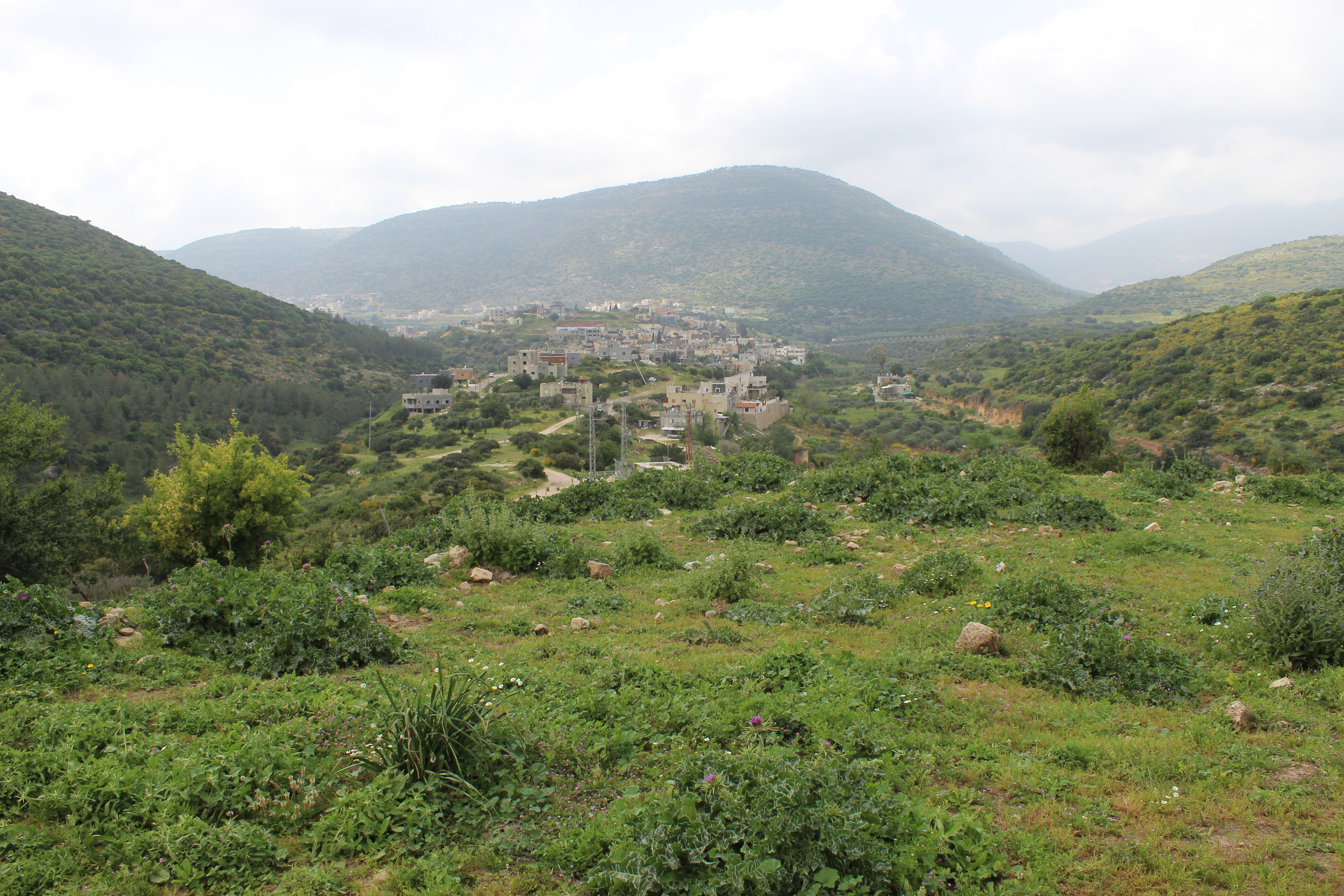 Village of Sallama in Lower Galilee